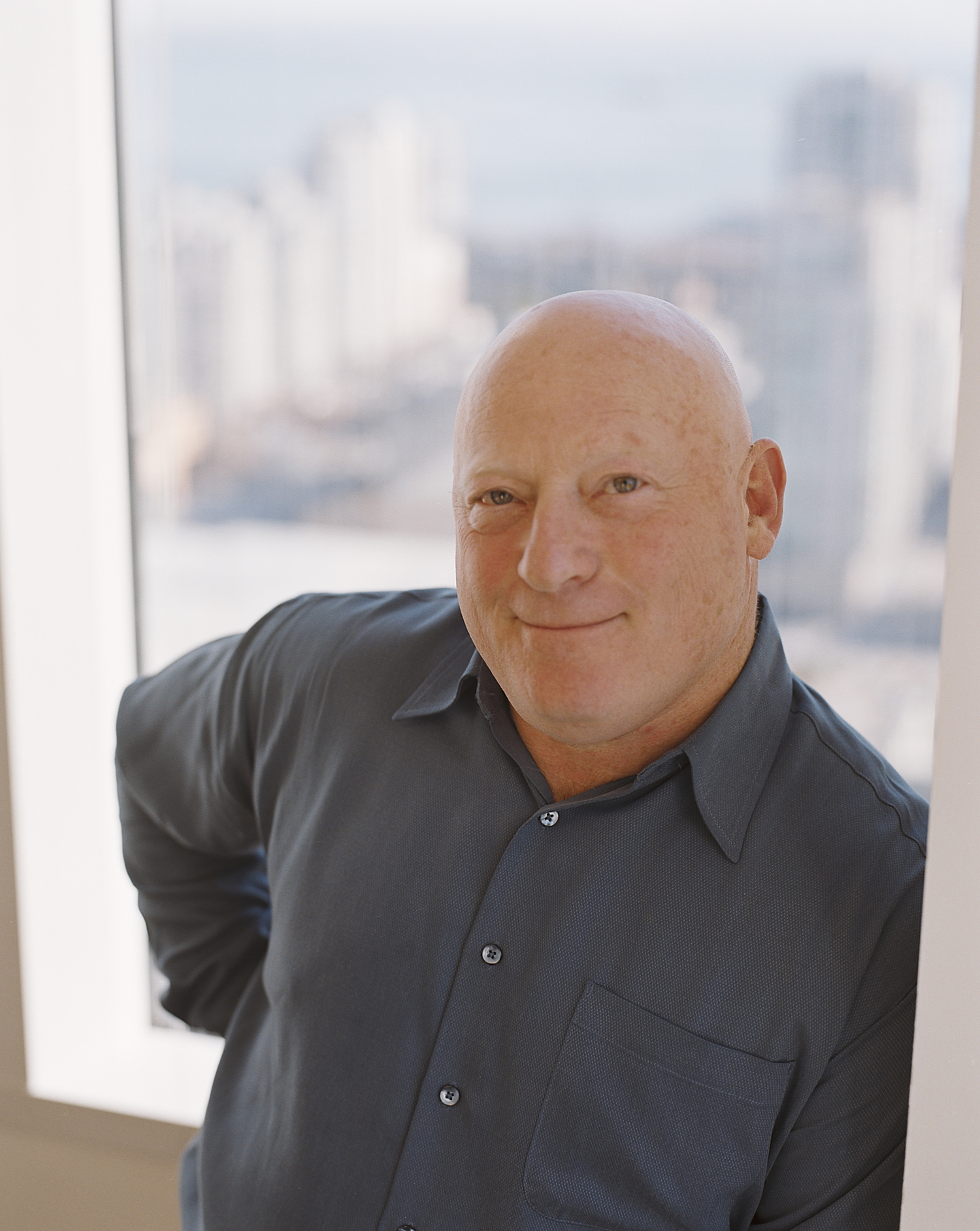 picture of alan cooper